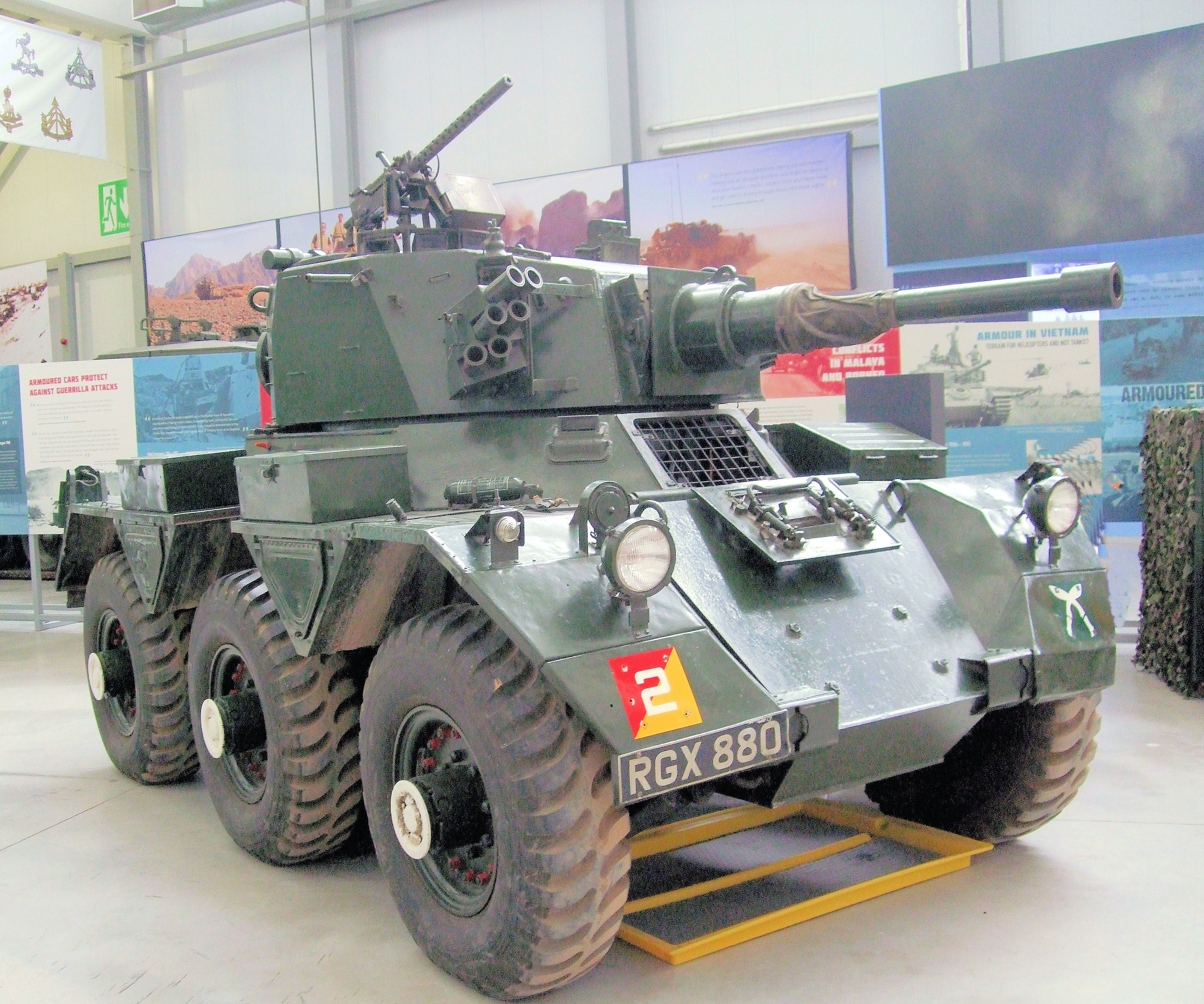 The Saladin (FV601) is a six-wheeled armoured car built by Alvis, and fitted with a 76mm gun. Used extensively by the British Army, it replaced the AEC Armoured Car that had been in service since World War II.